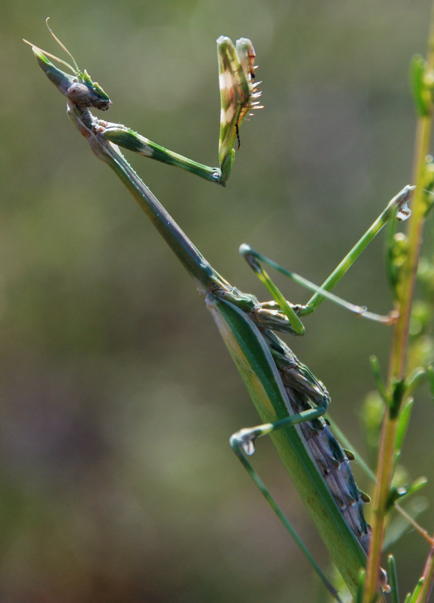 Empusa fasciata in Eastern Ukrane